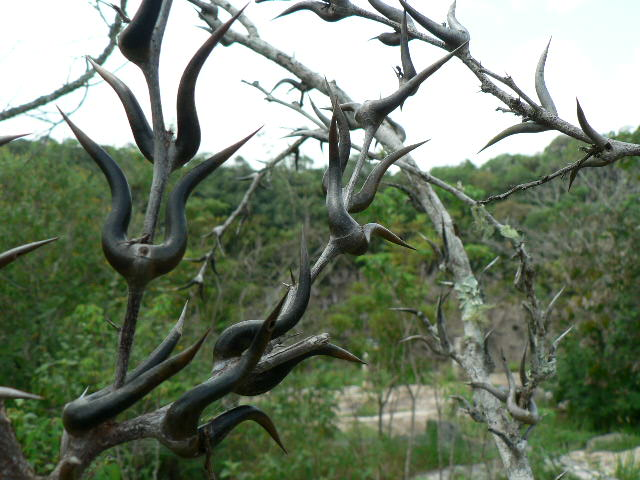 Acacia cornigera on Sima de las cotorras, Chiapas, México. 01